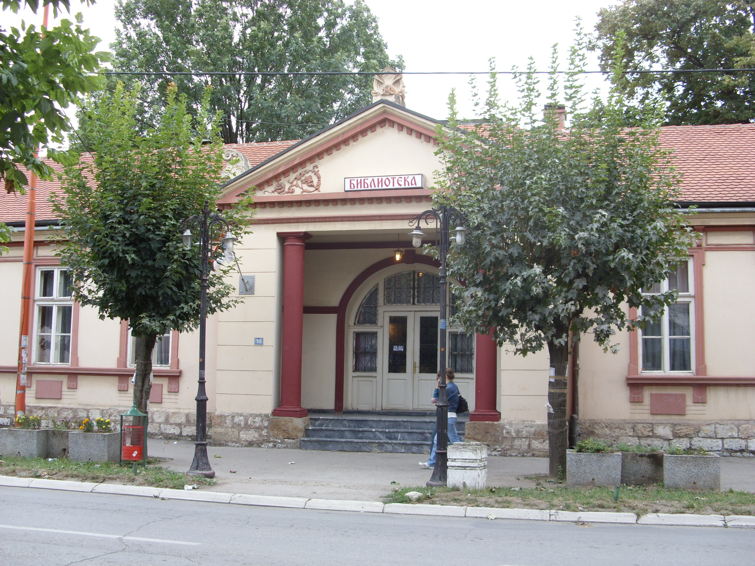 Library in Despotovac, Serbien. Hornjoserbsce: Knihownja w serbiskej Despotovaće.